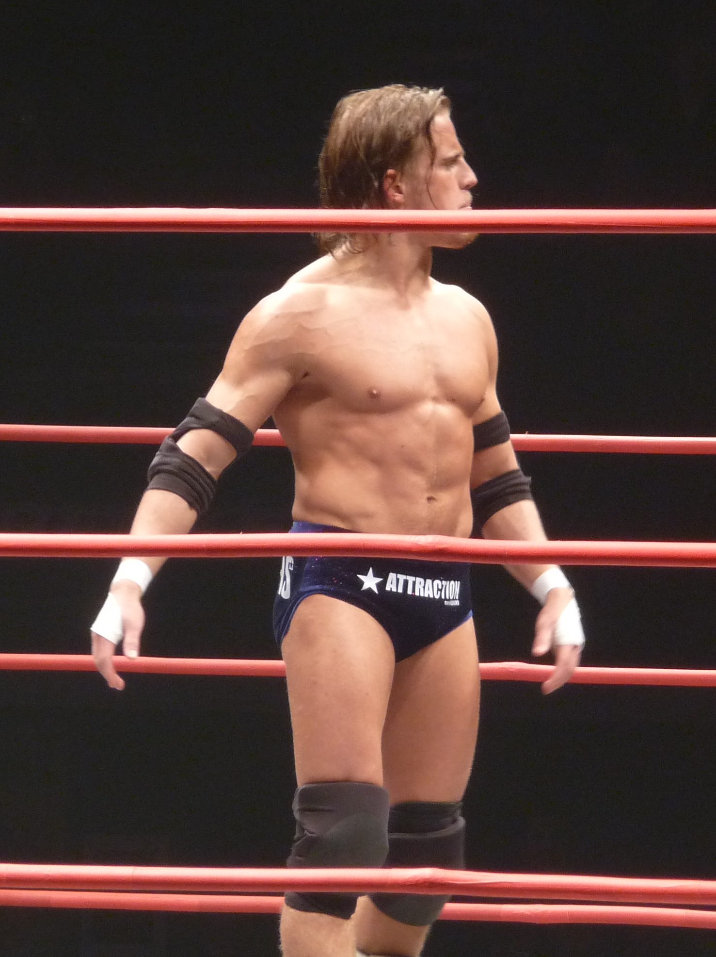 Mark Haskins in January 2011, at a Total Nonstop Action Wrestling event at the Wembley Arena. Cropped from original.